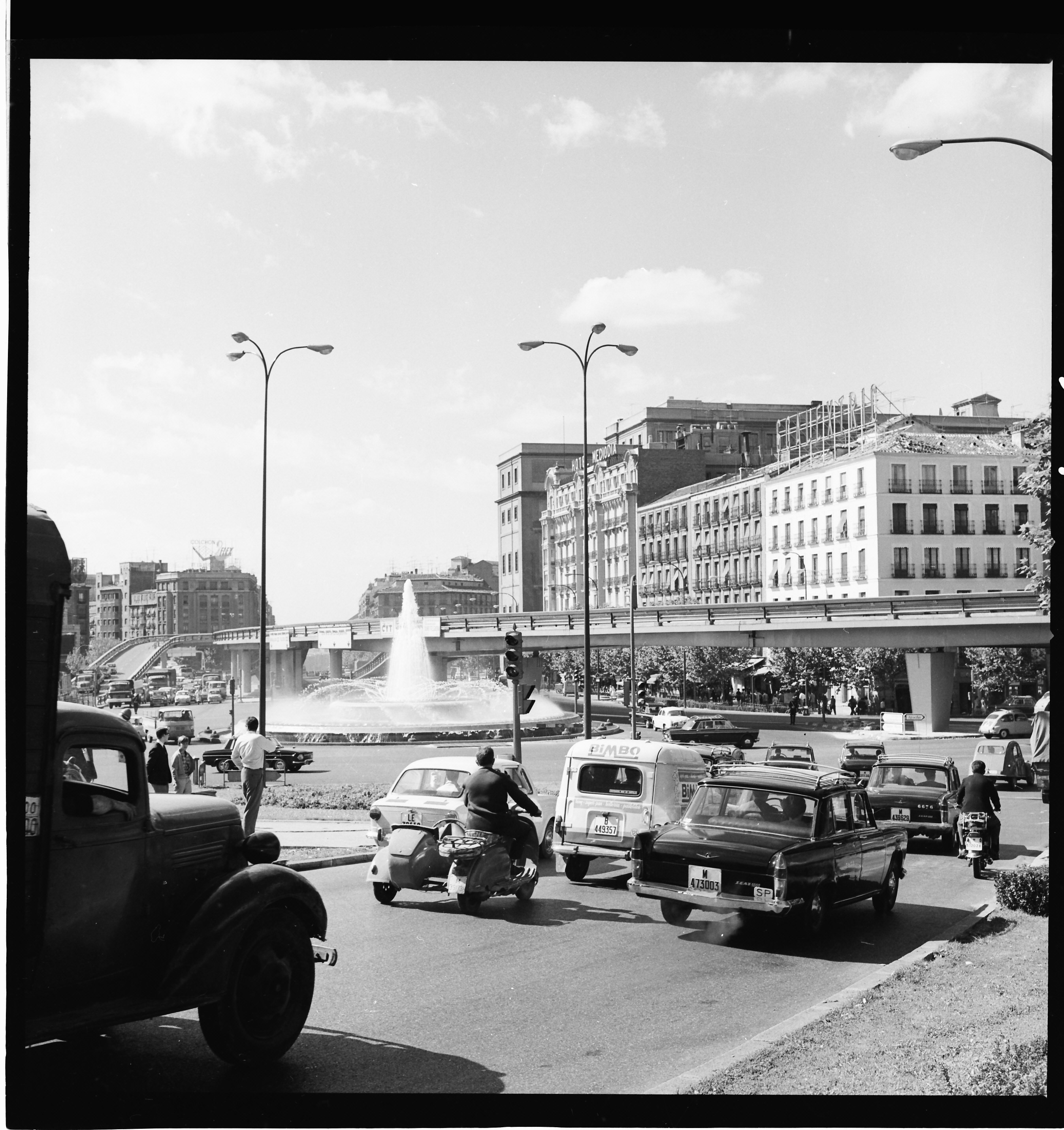 Aplin_B13436_Spain1968_0001